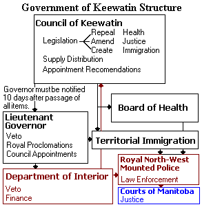 A png file showing the structure of the Government of Keewatin, for the former Canadian territory of the District of Keewatin, as outlined in the Throne Speech November 30, 1876.